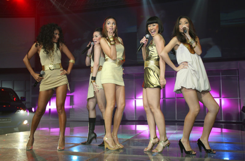 The Kitty Girls during the '07 Subaru WRX Impreza launch.